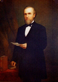 Portrait of Henry Huntly Haight, 10th Governor of California.